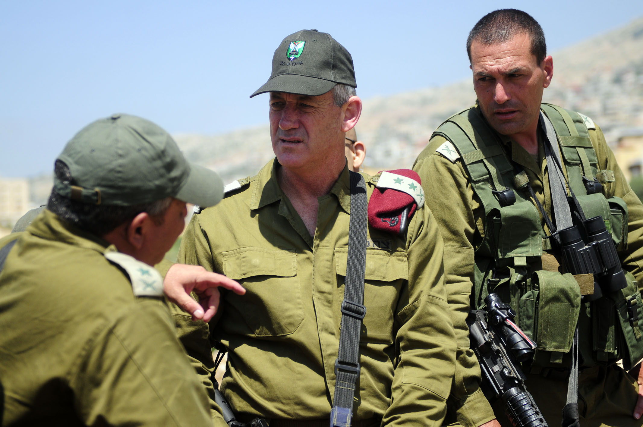 June 6, 2011. IDF Chief of the General Staff, Lt. Gen. Benny Gantz, visited the 36th Armored Division, which is subordinate to the Northern Command. "We must remain alert and prepared," said Lt. Gen. Gantz. "The IDF is prepared to use all the defensive means at its disposal to prevent terrorist attacks and large scale attempts to breach the border." Lt. Gen. Gantz met with GOC Northern Command, Maj. Gen. Gadi Eisenkot, Commander of the 36th Armored Division, Brig. Gen. Eyal Zamir and soldiers stationed at the northern security fence. He received a situation assessment and debriefing on the previous day's events including conclusions reached at all levels of the IDF's command structure 06.06.2011 הרמטכ"ל, רב-אלוף בני גנץ ביקר היום (ב') בעוצבת געש שבפיקוד הצפון, נפגש עם החיילים המוצבים בקו ההגנה של גדר המערכת וכן עם מפקד פיקוד הצפון, אלוף גדי אייזנקוט ומפקד עוצבת געש, תת-אלוף אייל זמיר, אשר סקרו בפניו את אירועי היממה האחרונה.